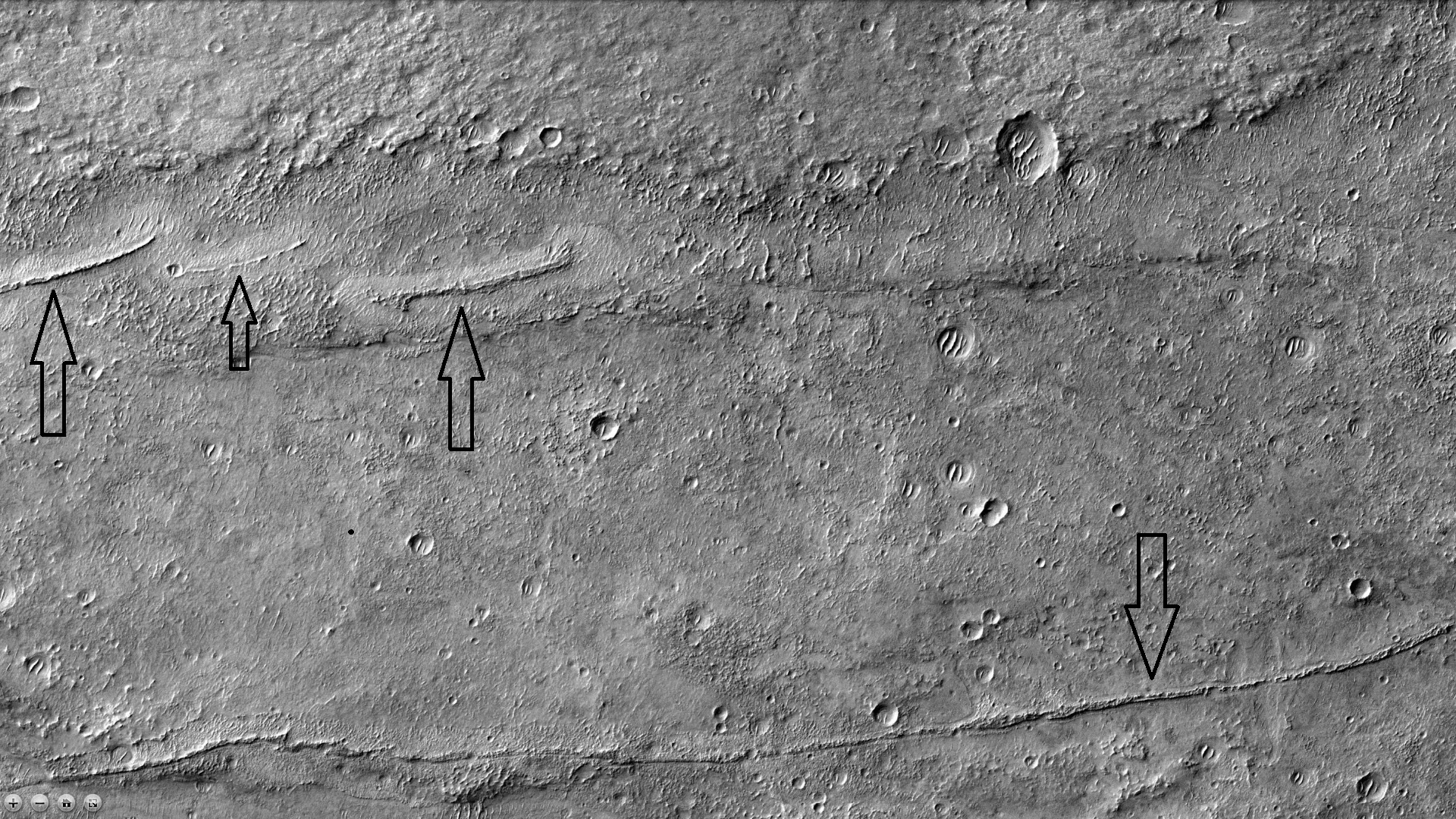 Ridges, as seen by CTX The location is the Coprates quadrangle. The ridges are thought to be dikes.